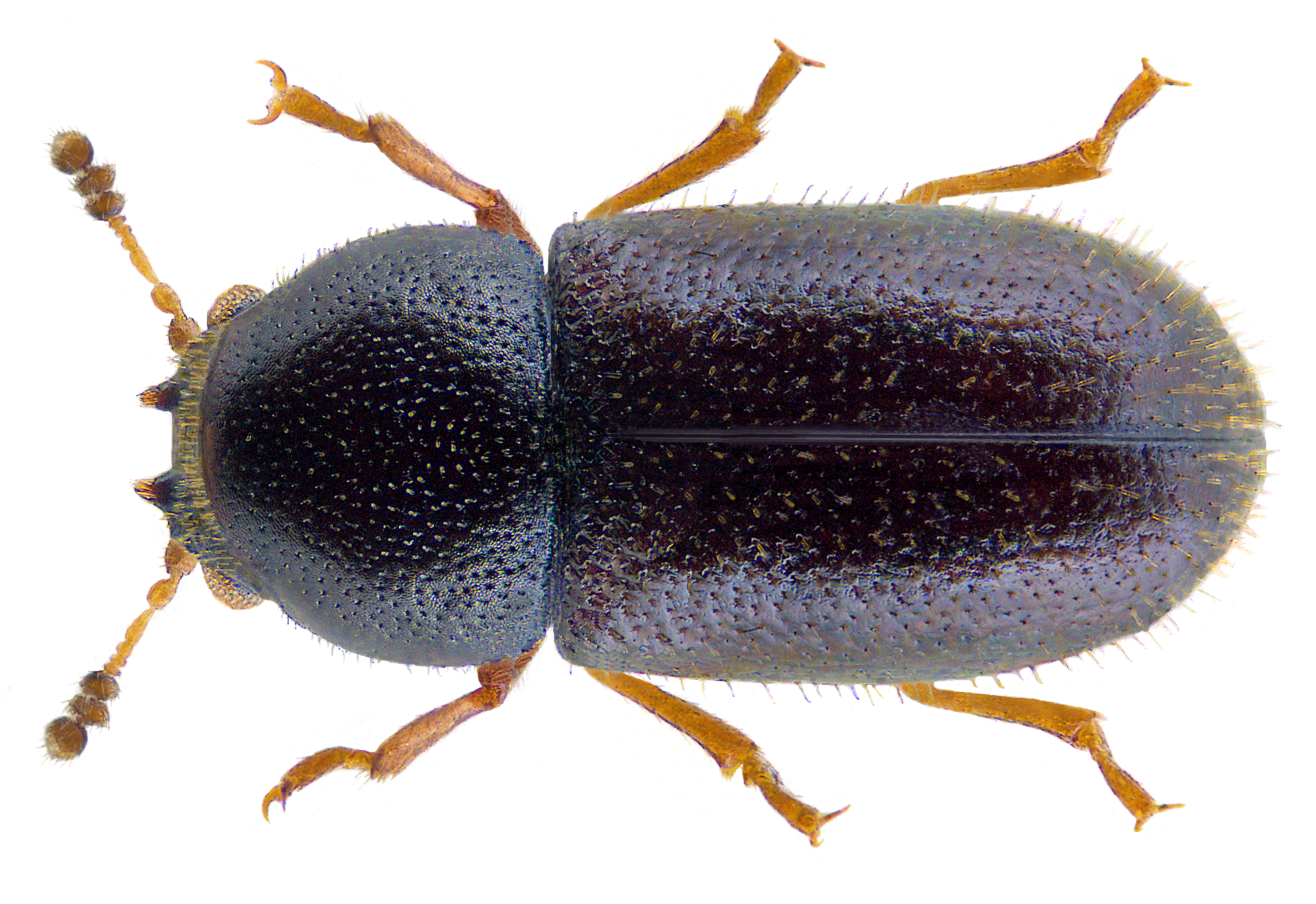 Family: Ciidae (Cisidae) Size: 1.7 mm Distribution: Europe Ecology: In hard tree sponges Location: Germany, Bavaria, Upper Franconia, Kulmbach, Burgberg leg.det. U.Schmidt, 23.V.2000 Photo: U.Schmidt, 2017